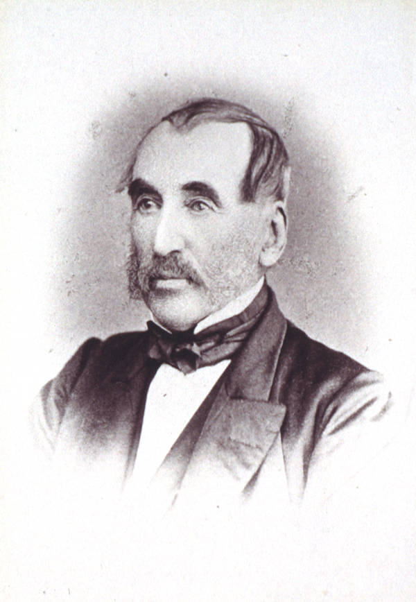 This image shows a photograph of Thomas Gregson, taken prior to 1874.